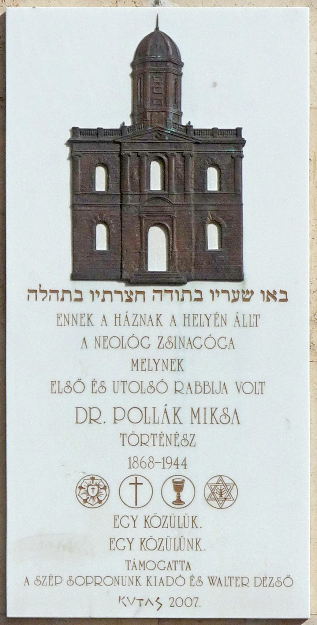 Commemorative plaque to Mr. Miksa Pollák (1868-1944) Hungarian historian. It is affixed to the wall of the building erected on the site where stood before the neolog (reformed) synagogue which he was the first and the last rabbi. Quote: "One of them. One of us." The unveiling was held on 3 July 2007. The author of the bronze relief is László Kutas (2007). (Sopron, Templom Street Nr 23)